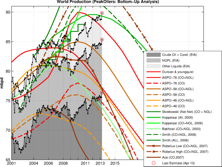 Various peak oil models (not a complete list) compared.